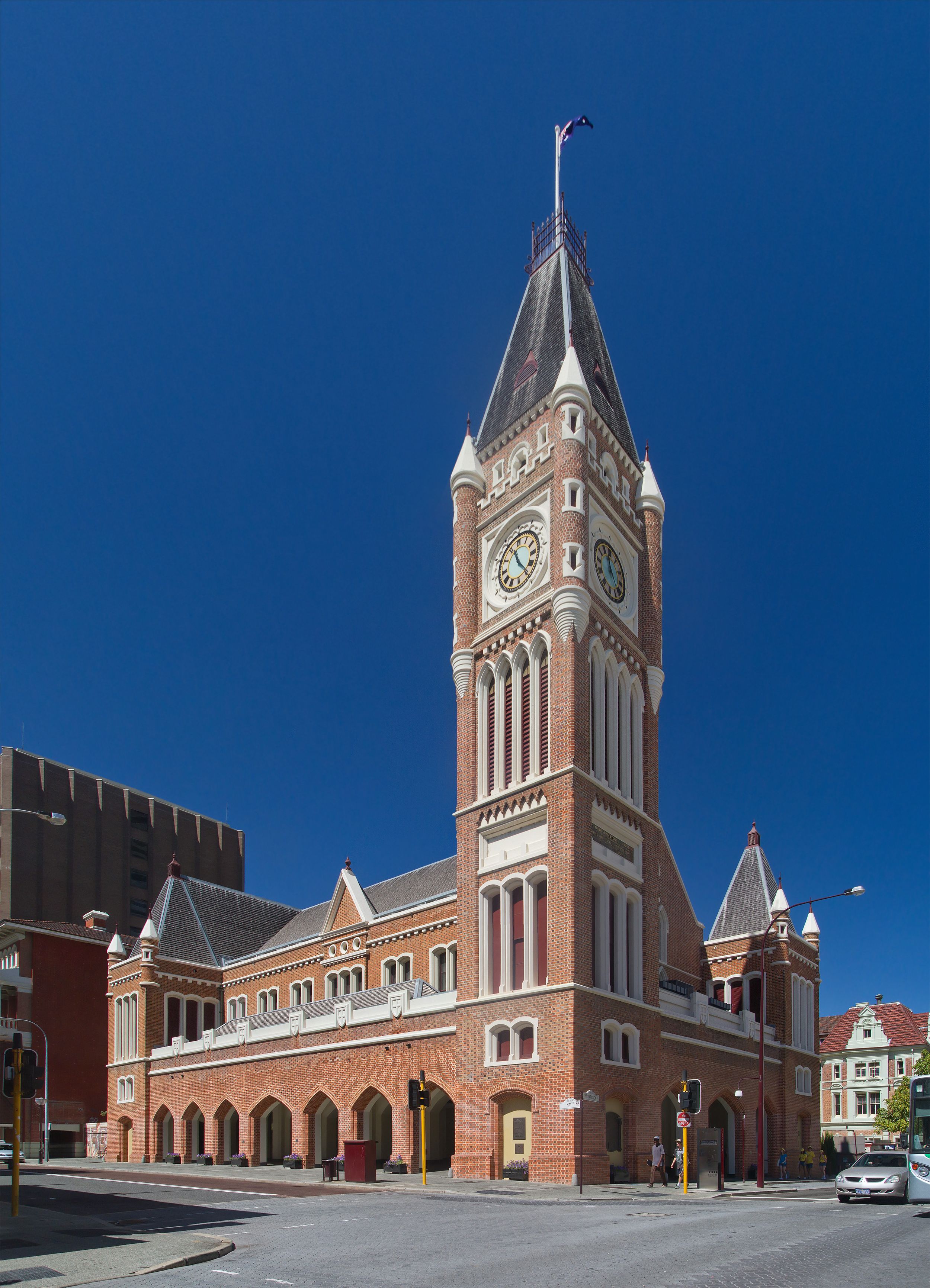 Perth Town Hall, Perth, Western Australia, Australia